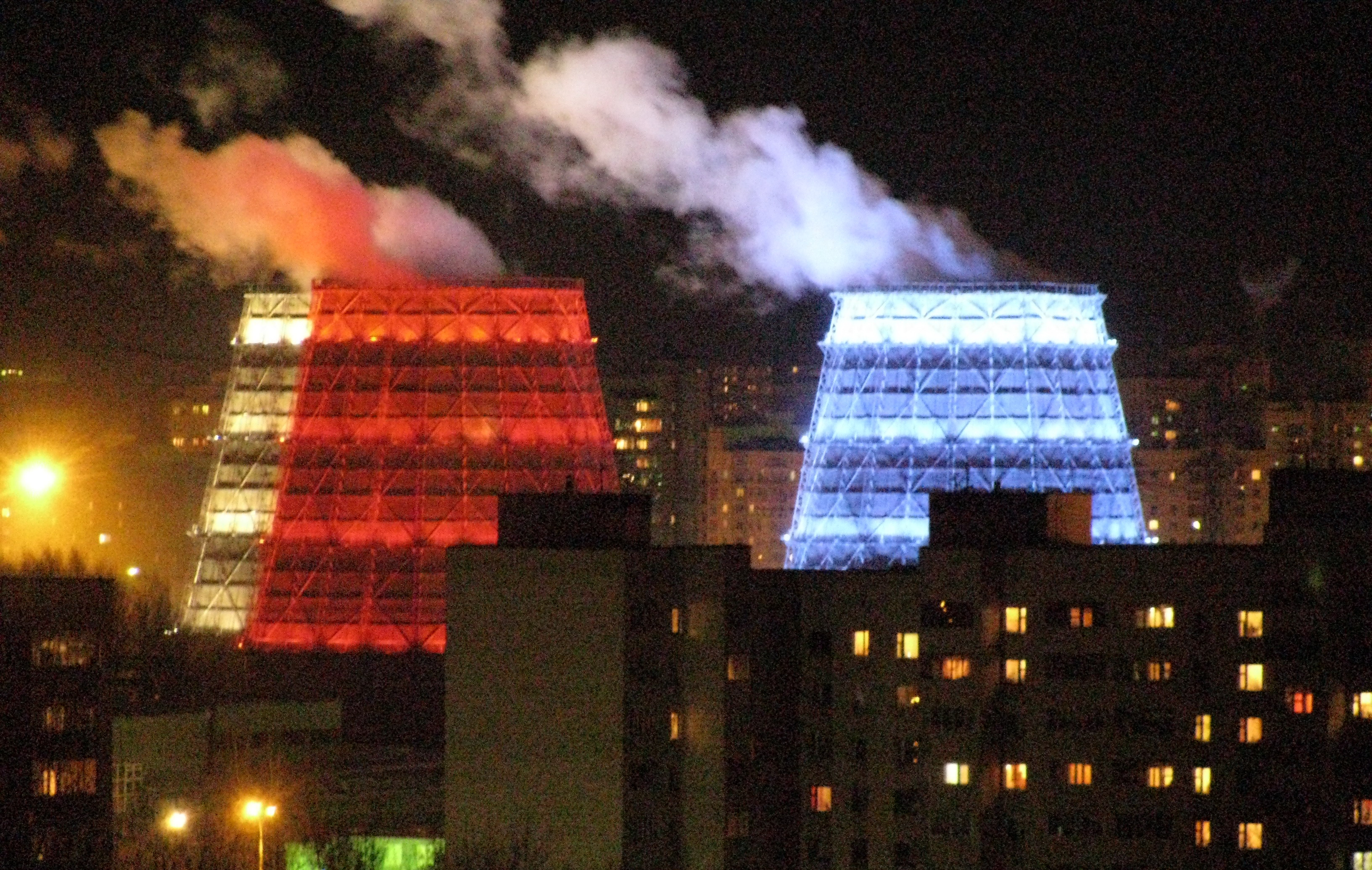 VIZ, Yekaterinburg, Russia